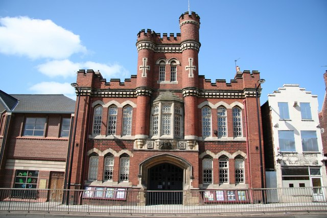 The Drill Hall Familiar landmark on Broadgate, the Drill Hall opened in 1890 paid for by Lincoln industrialist Joseph Ruston. After its use as a drill hall, it has been a venue for wrestling, bingo and live bands ..... including the Rolling Stones on New Year's Eve 1962. It is now a popular venue for all sorts of performing arts